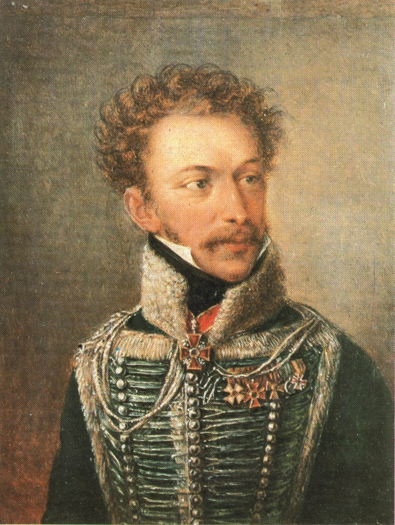 Ypslilanti Alexander Konstantinovich